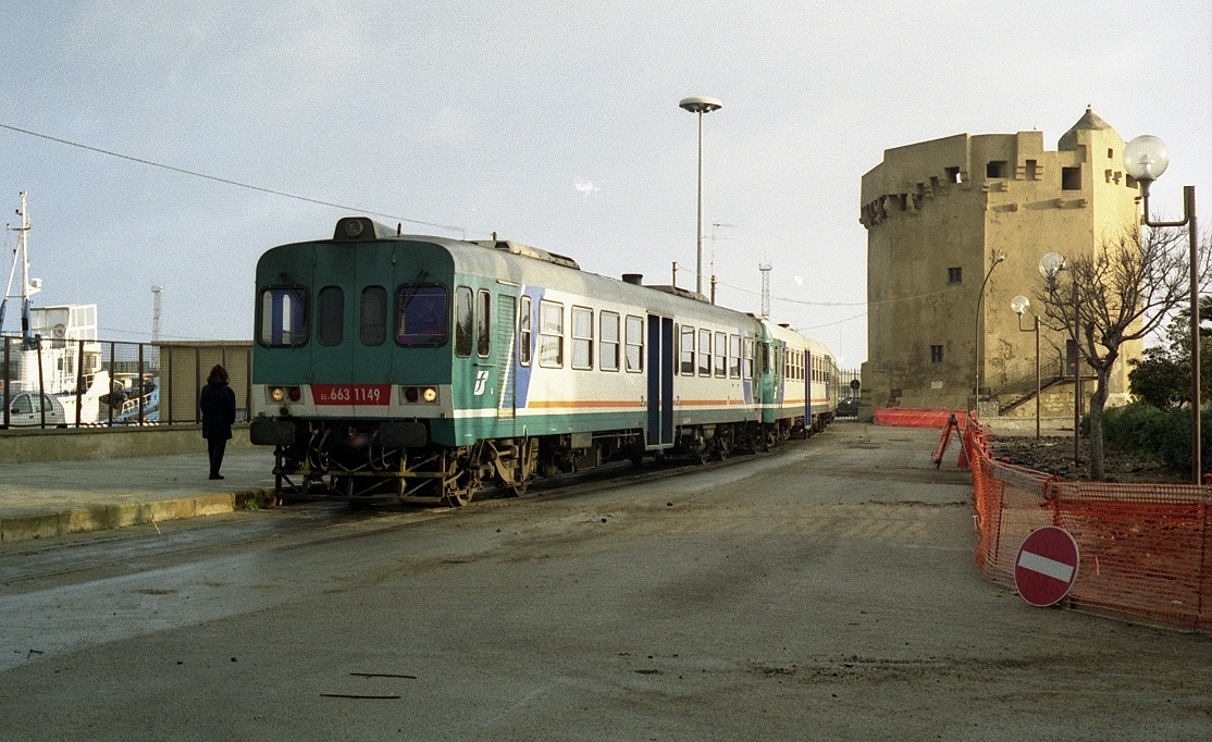 DMU ALn 663 1149 and ALn 668 3188 and 3226 awaiting in the terminus of Porto Torres Piazza Cristoforo Colombo, in Sardinia, Italy. The halt closed in 2004